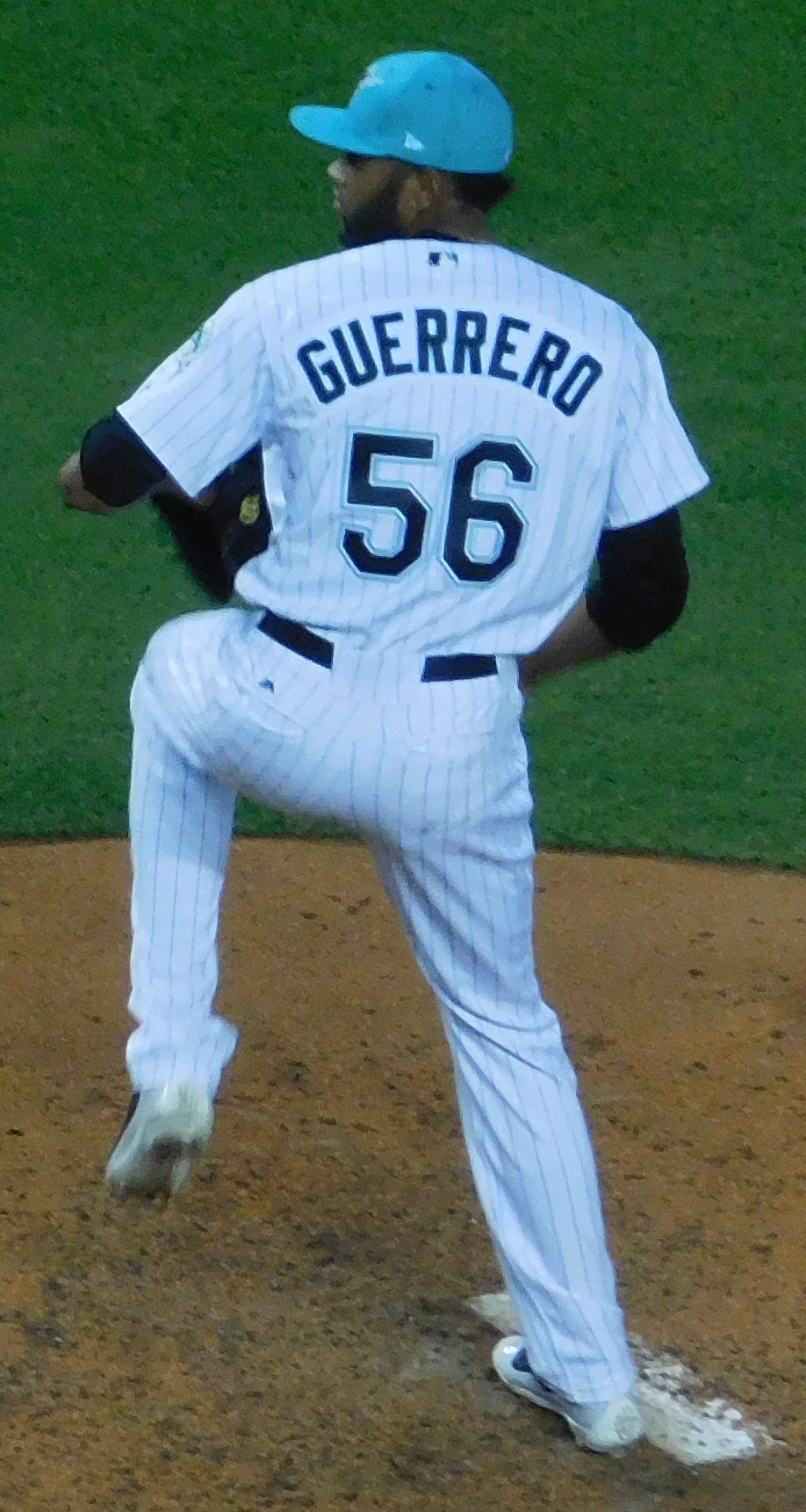 Tayron Guerrero playing for the Miami Marlins in June 2018.